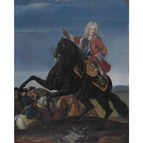 Equestrian portrait of Stanislaw Leszczynski, King of Poland